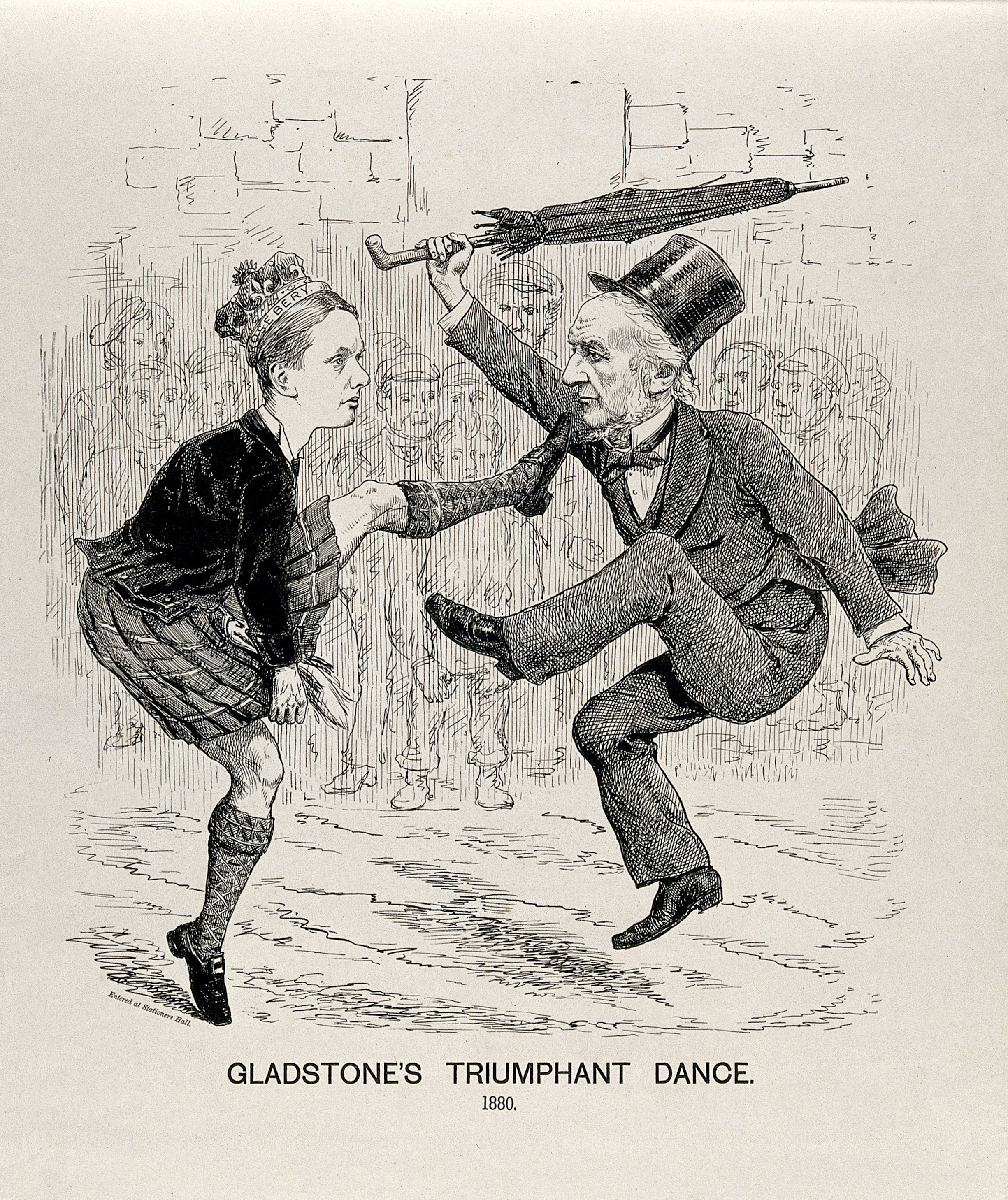 Political cartoon showing Gladstone dancing with Lord Rosebery, wearing a kilt and a crown "Gladstone's triumphant dance 1880" Iconographic Collections Keywords: Politician; William Ewart Gladstone; Dance; Scotland; Satire; Cartoon